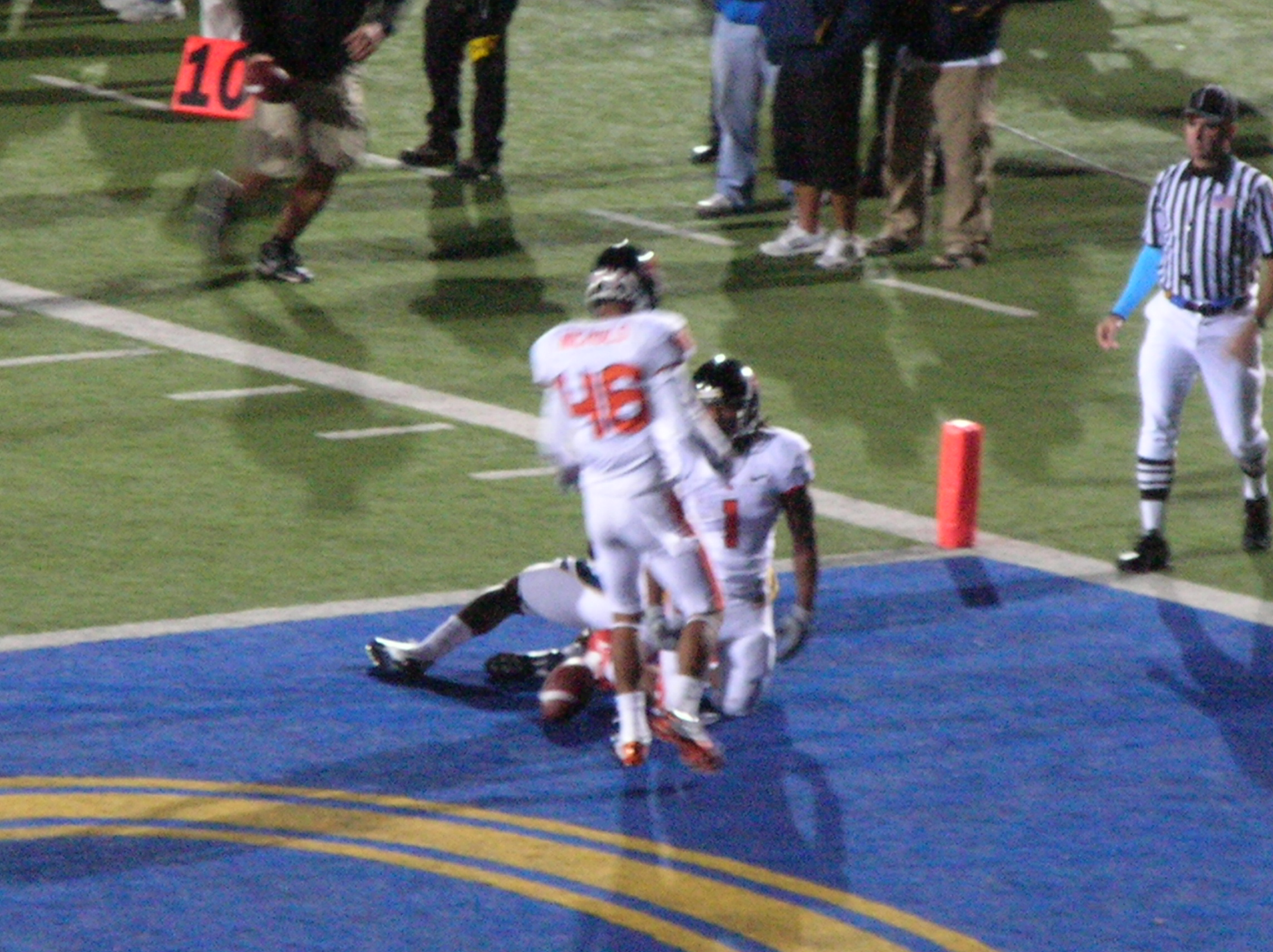 Oregon State running back Jacquizz Rodgers (no. 1) scores a touchdown in the fourth quarter during a road game against the California Golden Bears. The Beavers won 31-14.